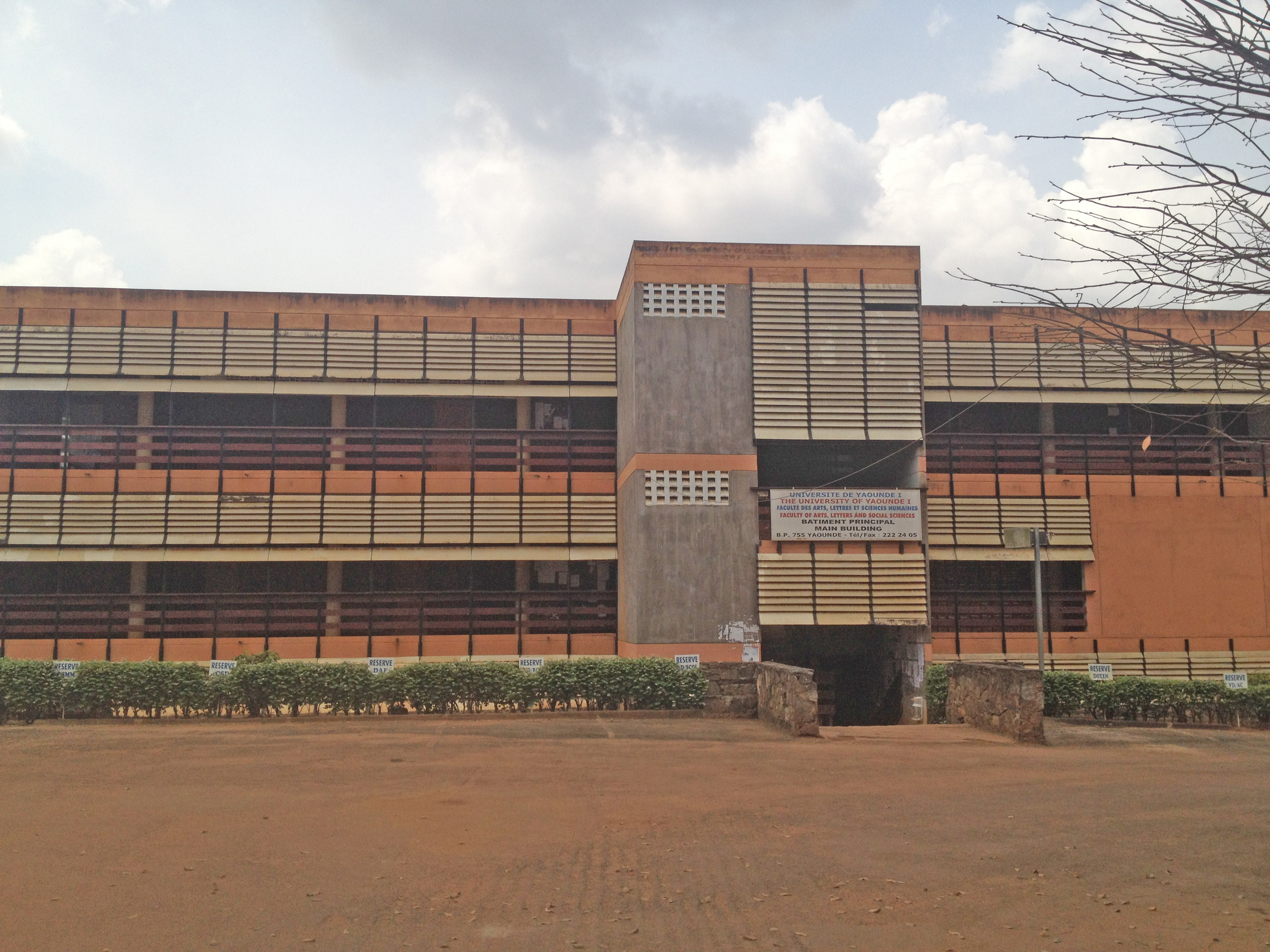 Building of the scolarité of the faculty of sciences of arts, languages and human sciences (FALSH) of Yaoundé I University on Ngoa-Ekelle campus.